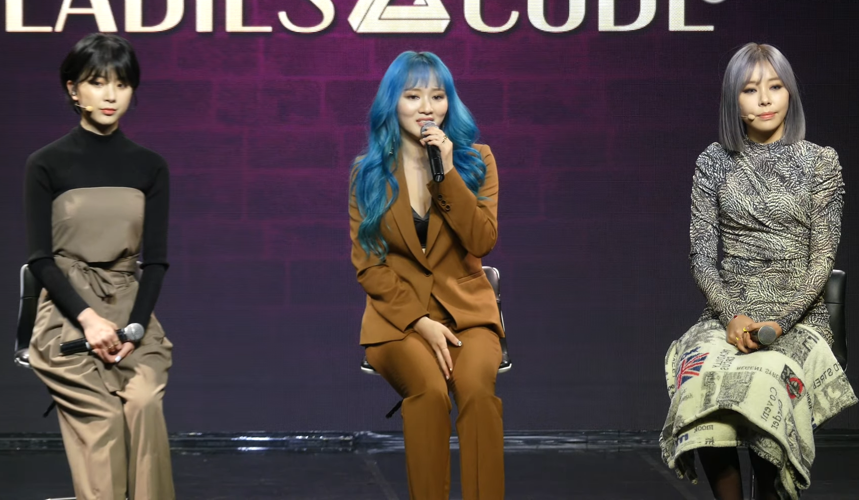 Ladies' Code at a showcase on October 10, 2019.